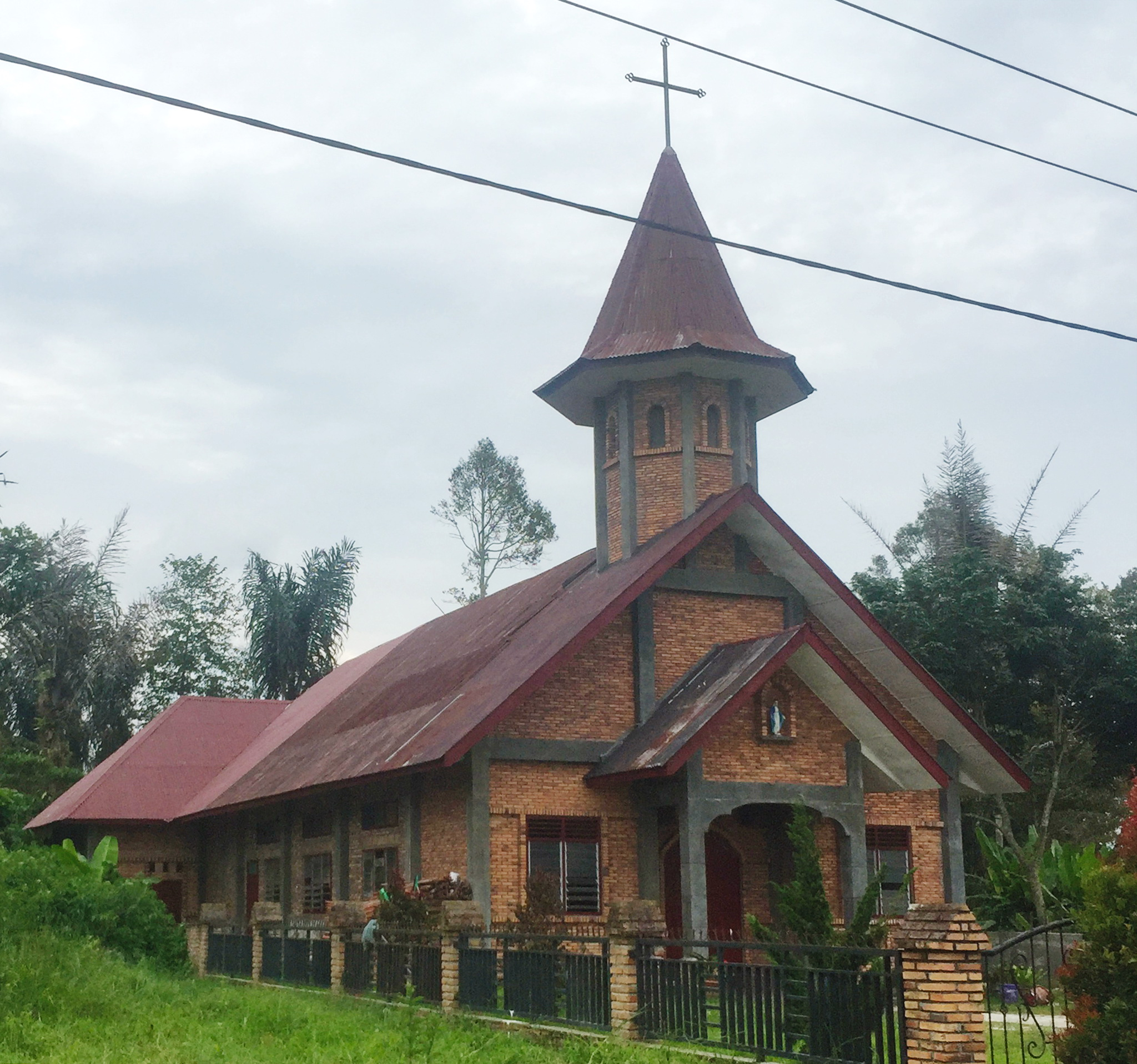 St. Fidelis Catholic Church in Simantin Pane Dame, Panei, Simalungun